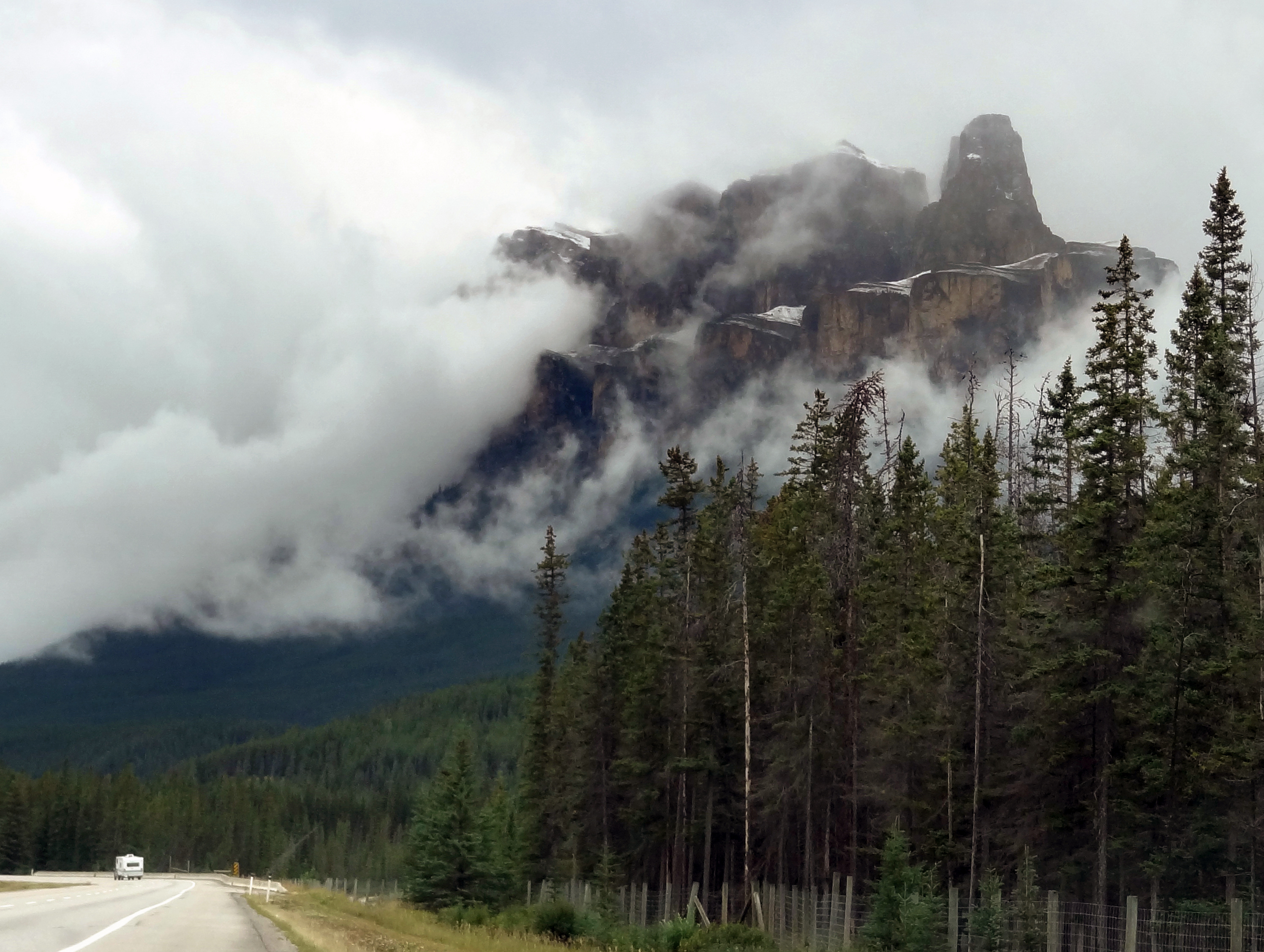 Eisenhower Tower (top right) rises out of the mists on Castle Mountain, above the Trans-Canada Highway (Banff National Park, Alberta, Canada, 2014)